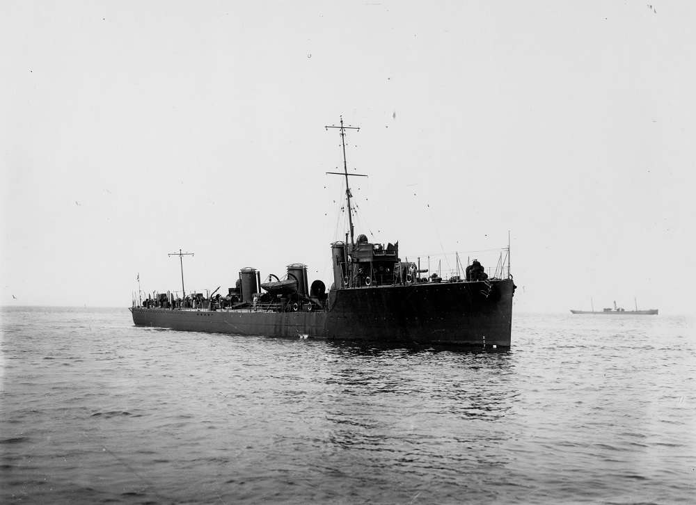 Starboard bow view of HMS Shark at sea